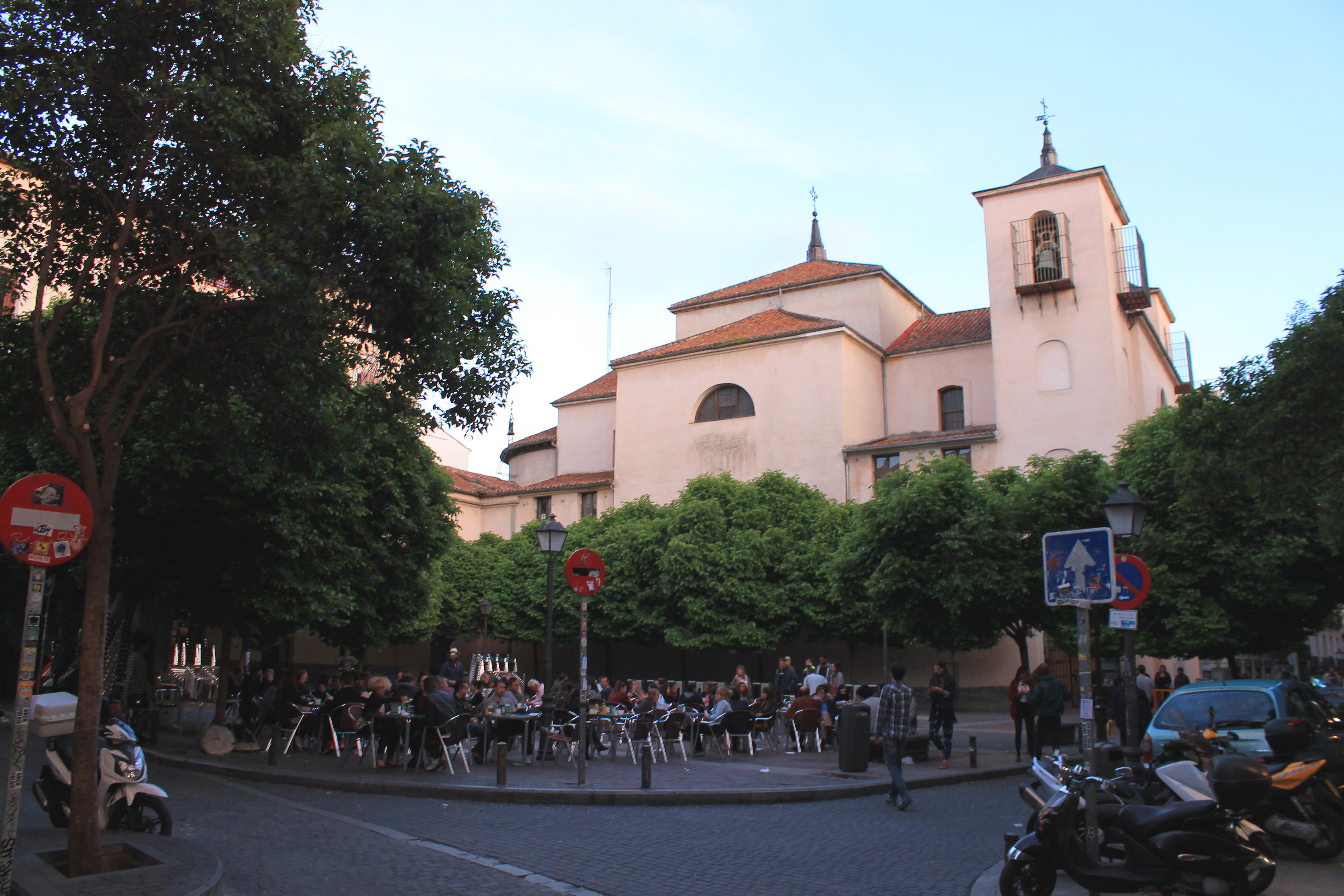 View of Plaza de San Ildefonso (square) in Madrid (Spain).